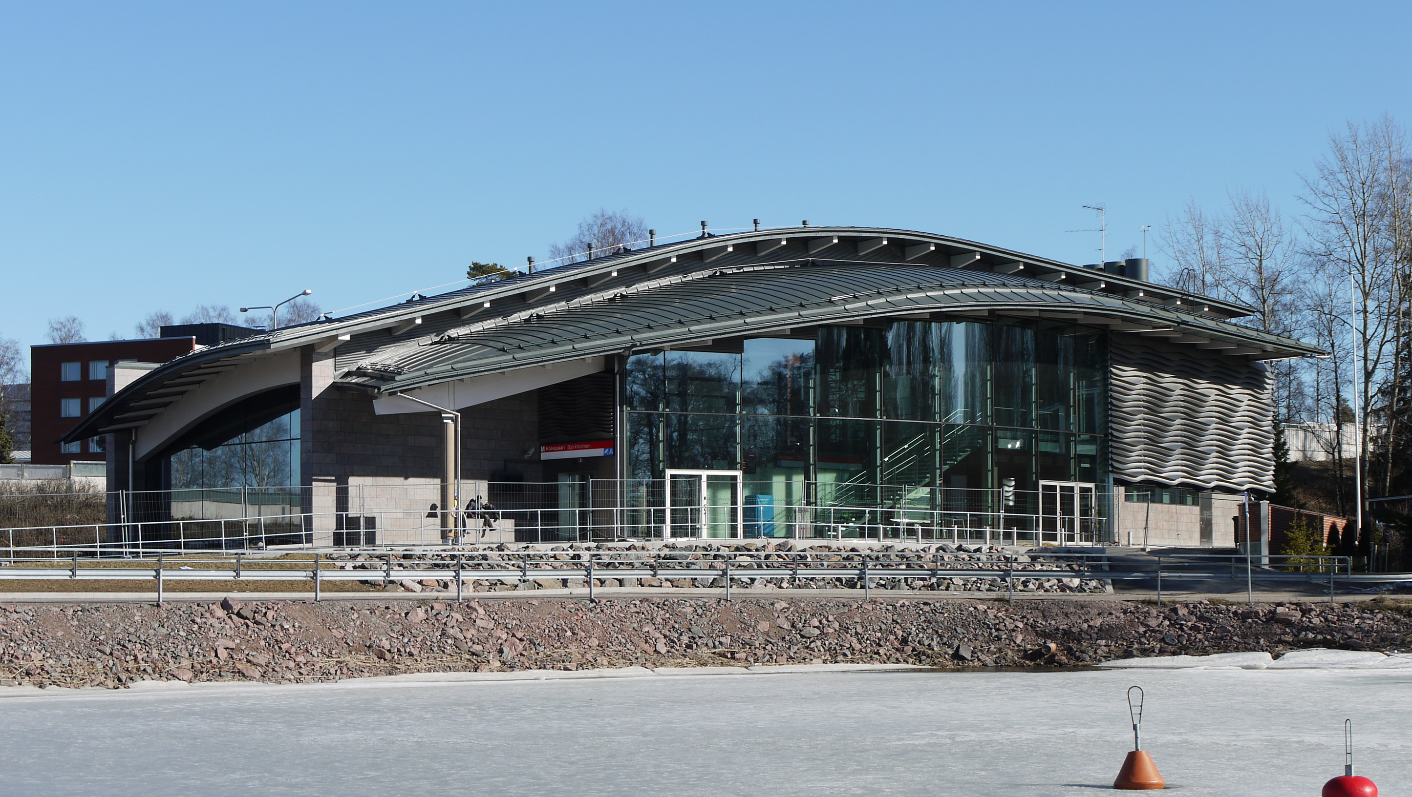 The already finished Koivusaari metro station in Helsinki, Finland. The station is planned to open in June 2017 as part of the Western metro extension (Länsimetro).